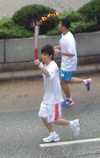 2008 Summer Olympics Torch in Tsim Sha Tsui, Hong Kong.